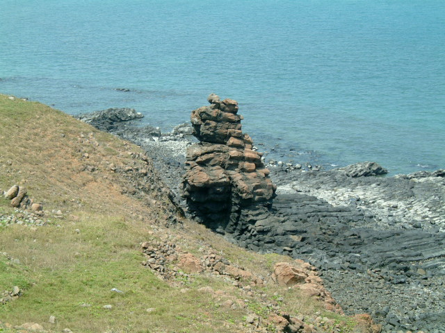 Template:Zh-yw